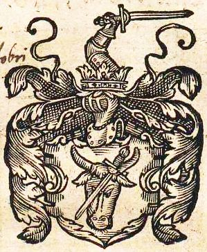 Pomian coat of arms by Bartłomiej Paprocki published in "Gniazdo cnoty.."